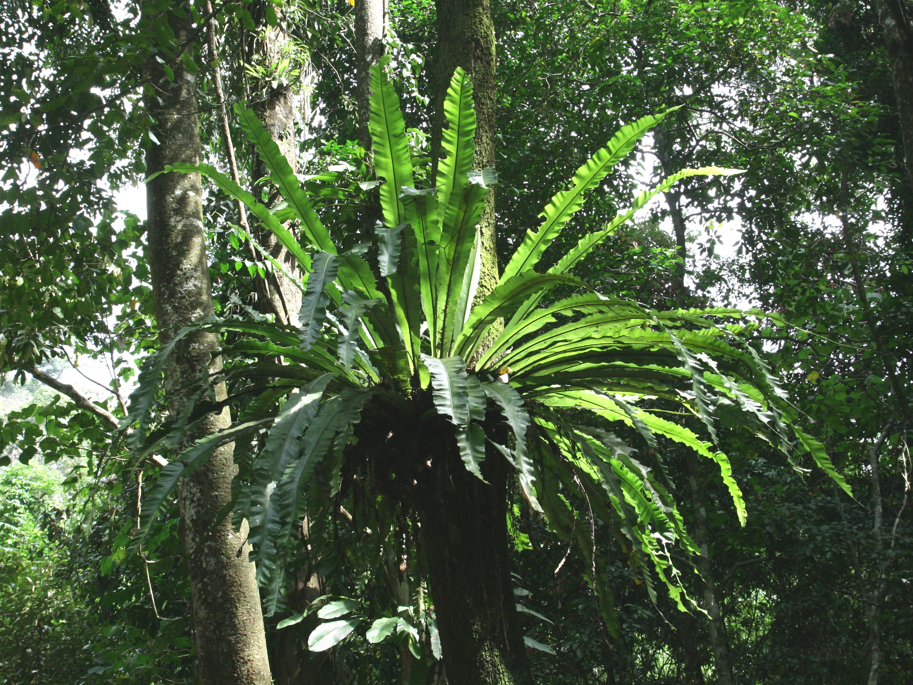 Asplenium nidus, Gunung Kemiri, n. Sumatra